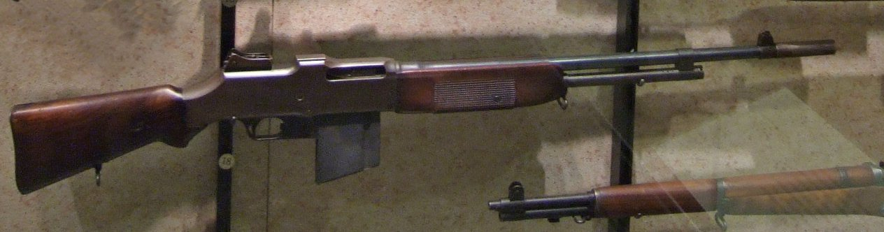 Browning M1918 (BAR). Image cropped from Image:American WW II firearms.jpg